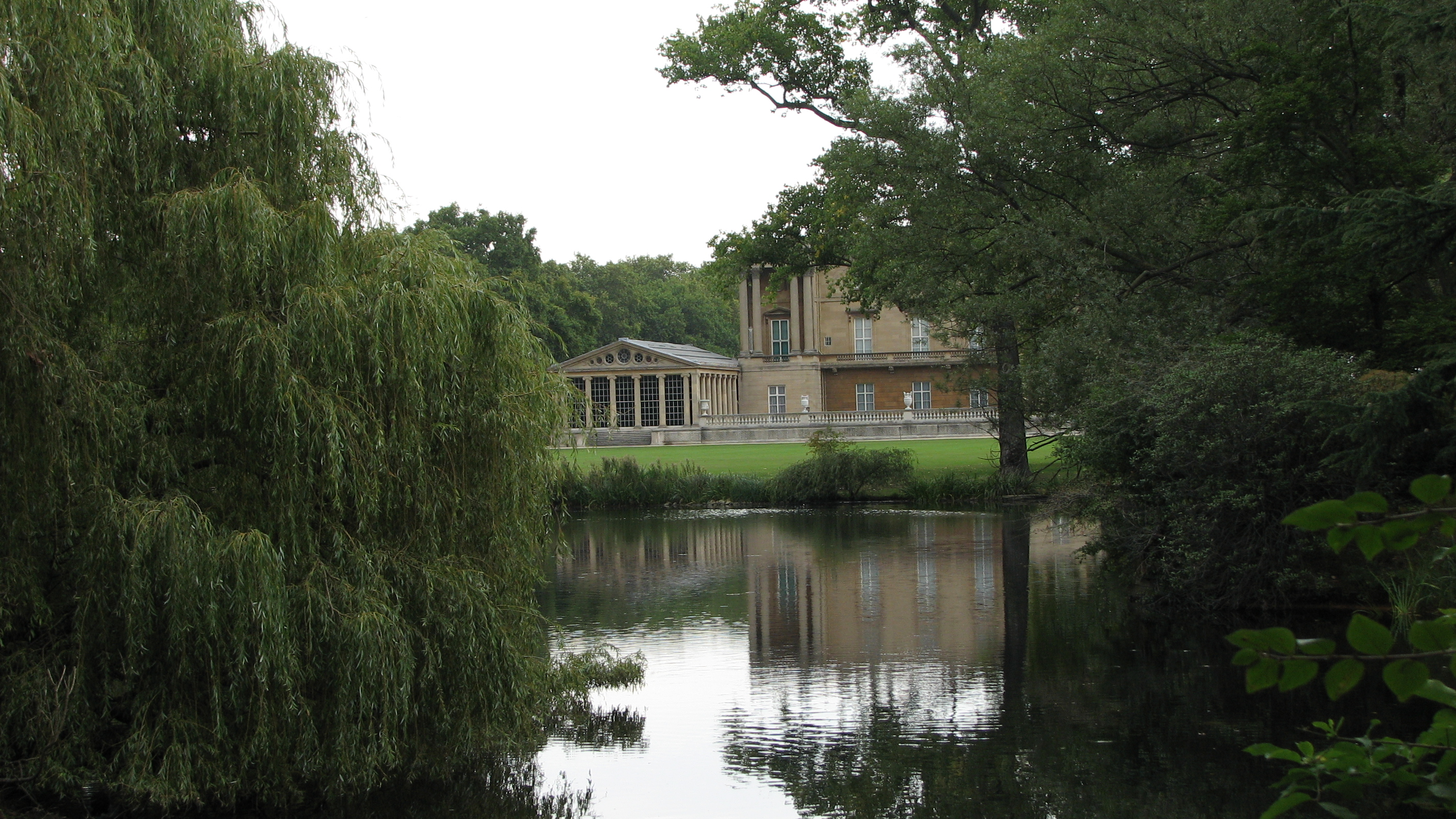 London - September 2008